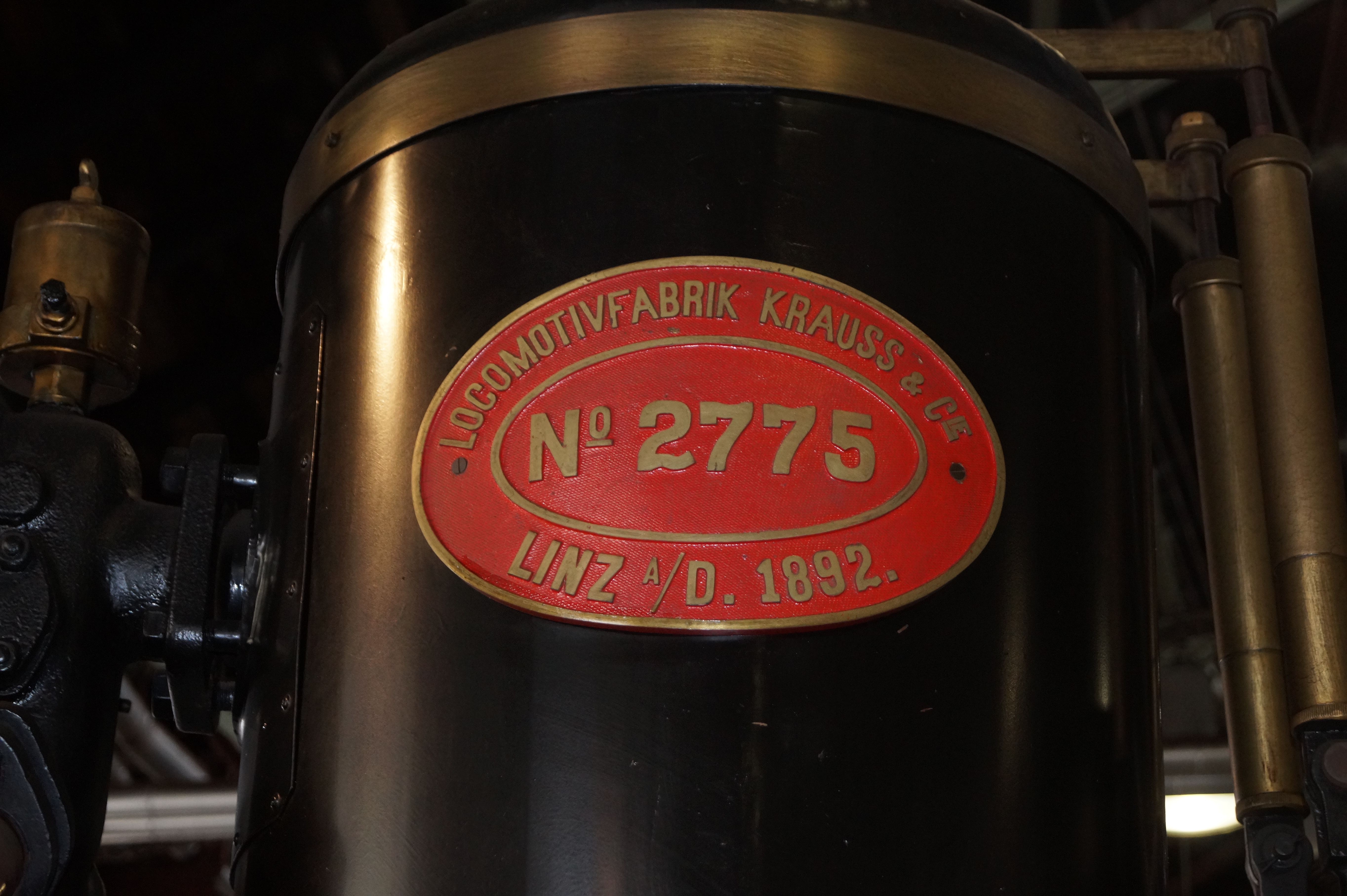 The steam locomotive K3 of Locomotivfabrik Krauss & Cie No 2775 Linz a/D 1892 in Slovenian Railway Museum was built in 1892 especially for the narrow gauge Poljčane-Konijice line